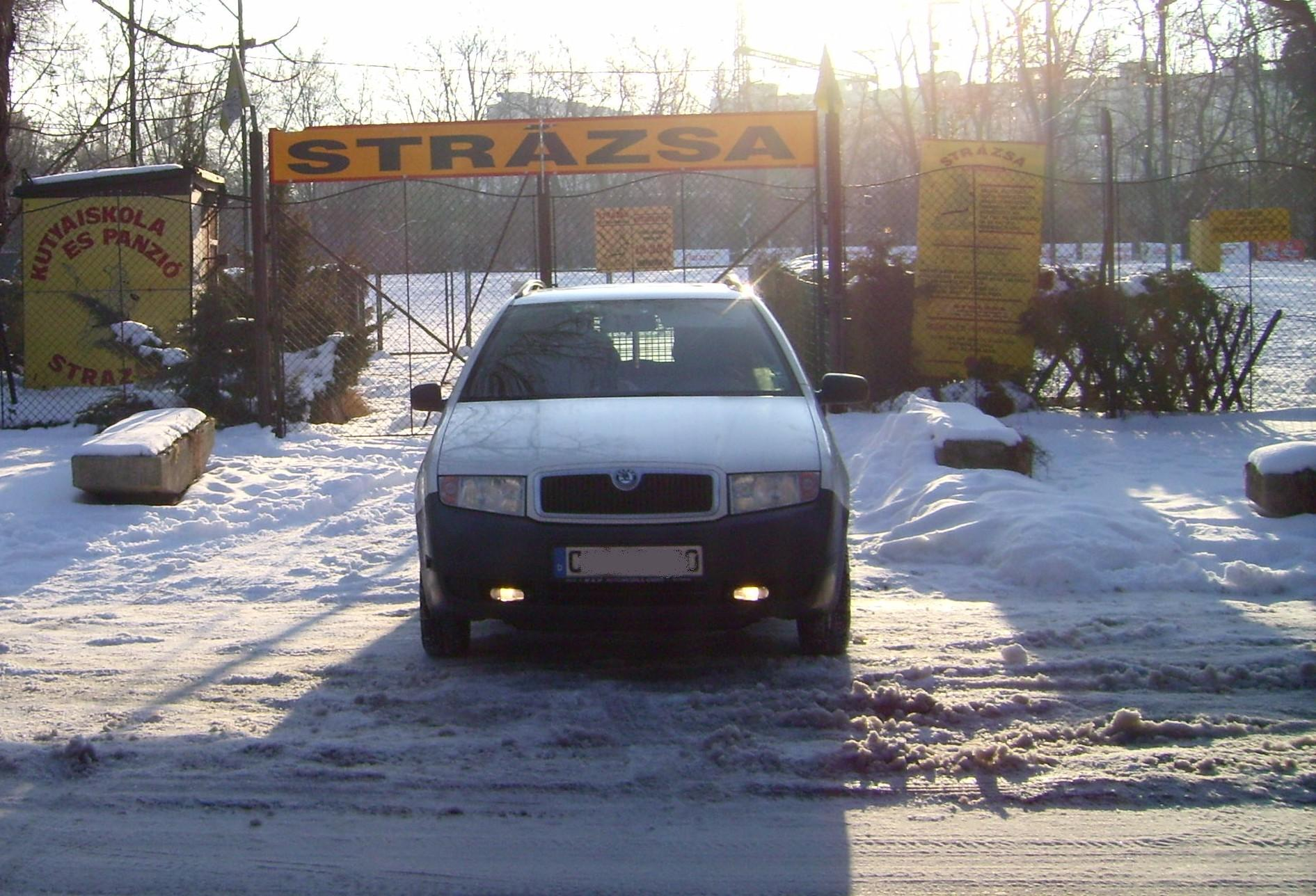 Daytime Running Lights, mounted on a Skoda Fabia. Picture taken in Budapest, contre-jour shot.